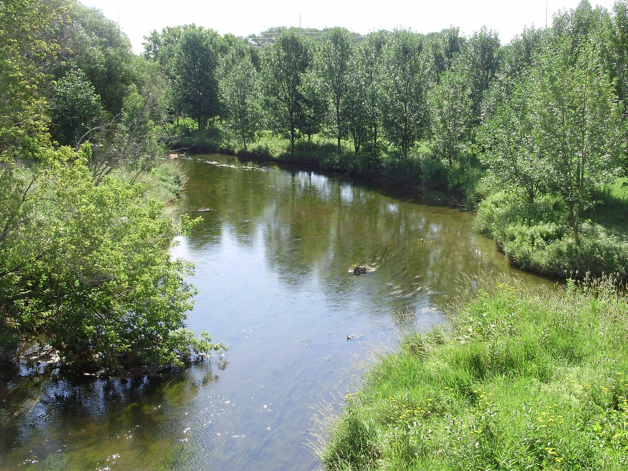 Sixteen Mile Creek in Milton, Ontario, Canada, looking south from the Laurier Avenue bridge.